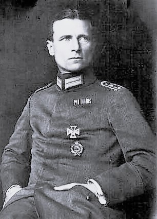 Picture postcard of Erwin Böhme. Sanke postcard #502.